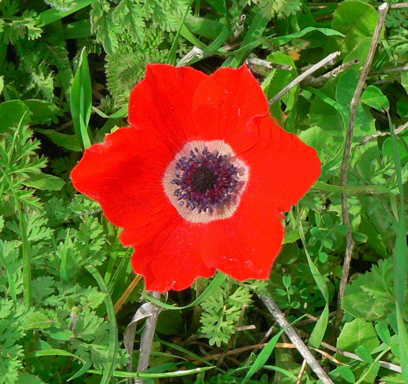 Anemone coronaria, Jerusalem, Israel